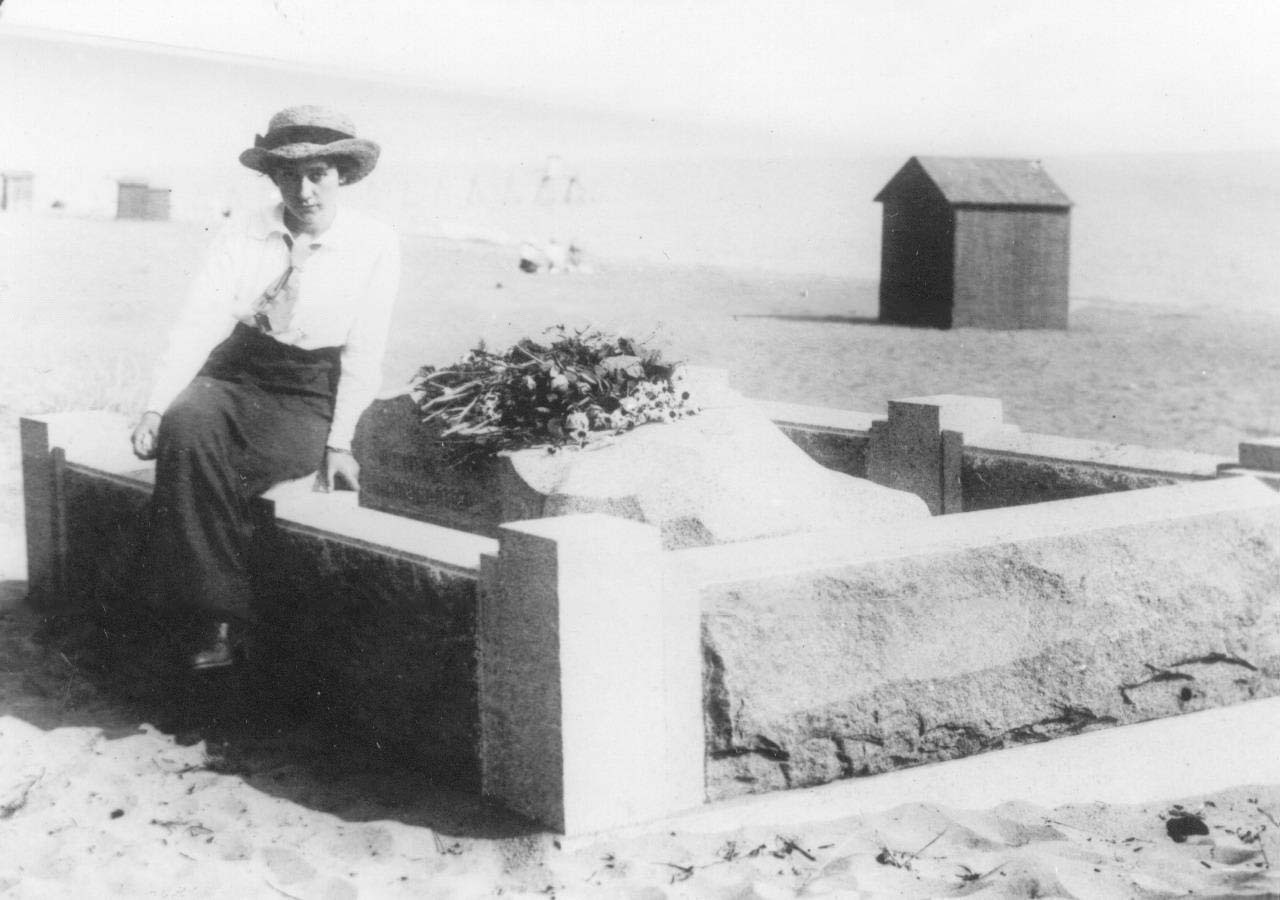 Anna Mikhailovna Herzenstein at the monument at the site of assatination of her father, Mikhail Herzenstein (1859–1906) at the shore of the Gulf of Finland